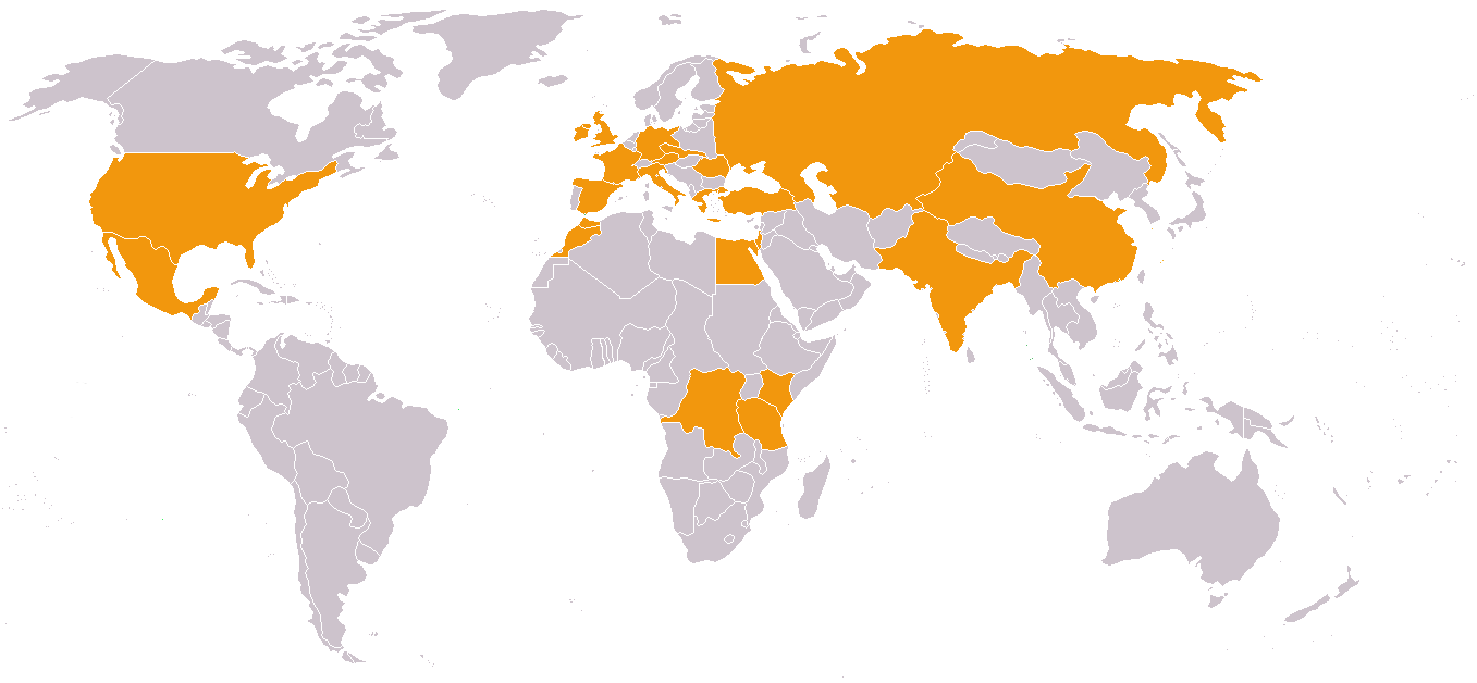 locations of The Young Indiana Jones Chronicles as listed on the wikipedia page, by their title. Map uses 1930s country borders